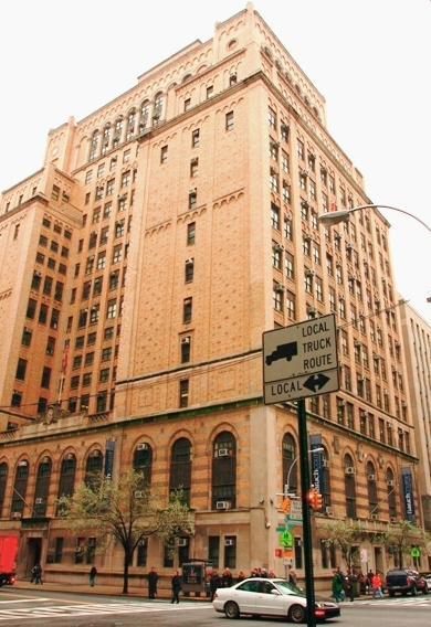 This photo is of Wikipedia Takes Manhattan location code 113, Lawrence and Eris Field Building.